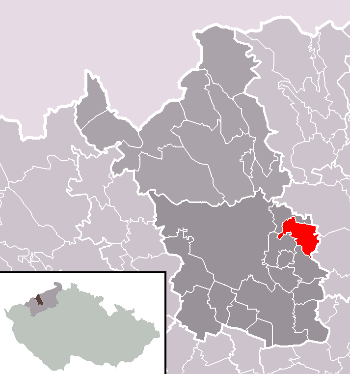 Location of Želenice municipality within Most District and administrative area of Most as a Municipality with Extended Competence.